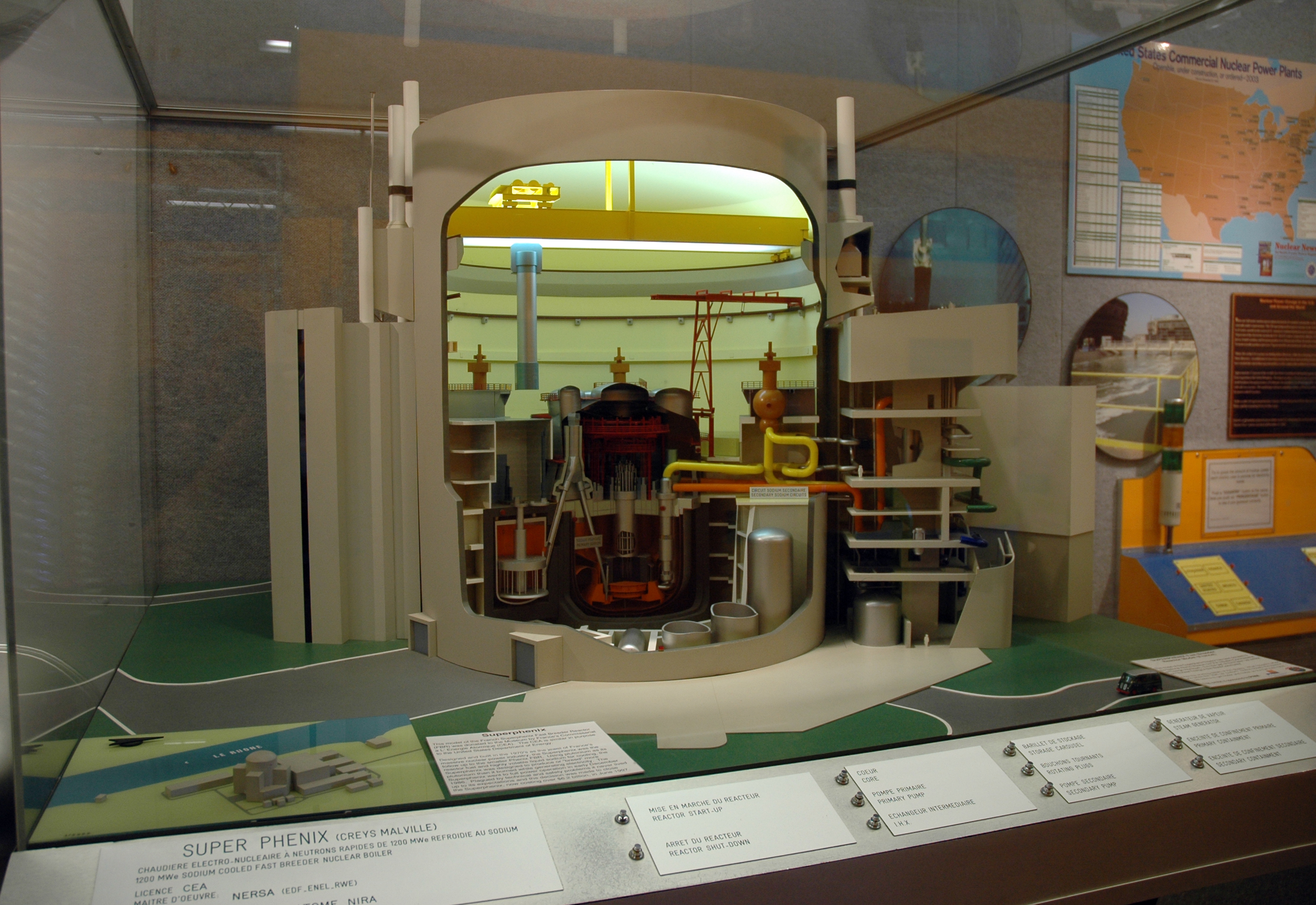 a model of the Superphenix nuclear power station, a now closed fast breeder reactor. While it was open, it was highly controversial and once on the receiving end of a eco-terrorist rocket attack. Part of the collection of the National Atomic Museum in Albuquerque, New Mexico. Note: This is my first try to upload something from Flickr.